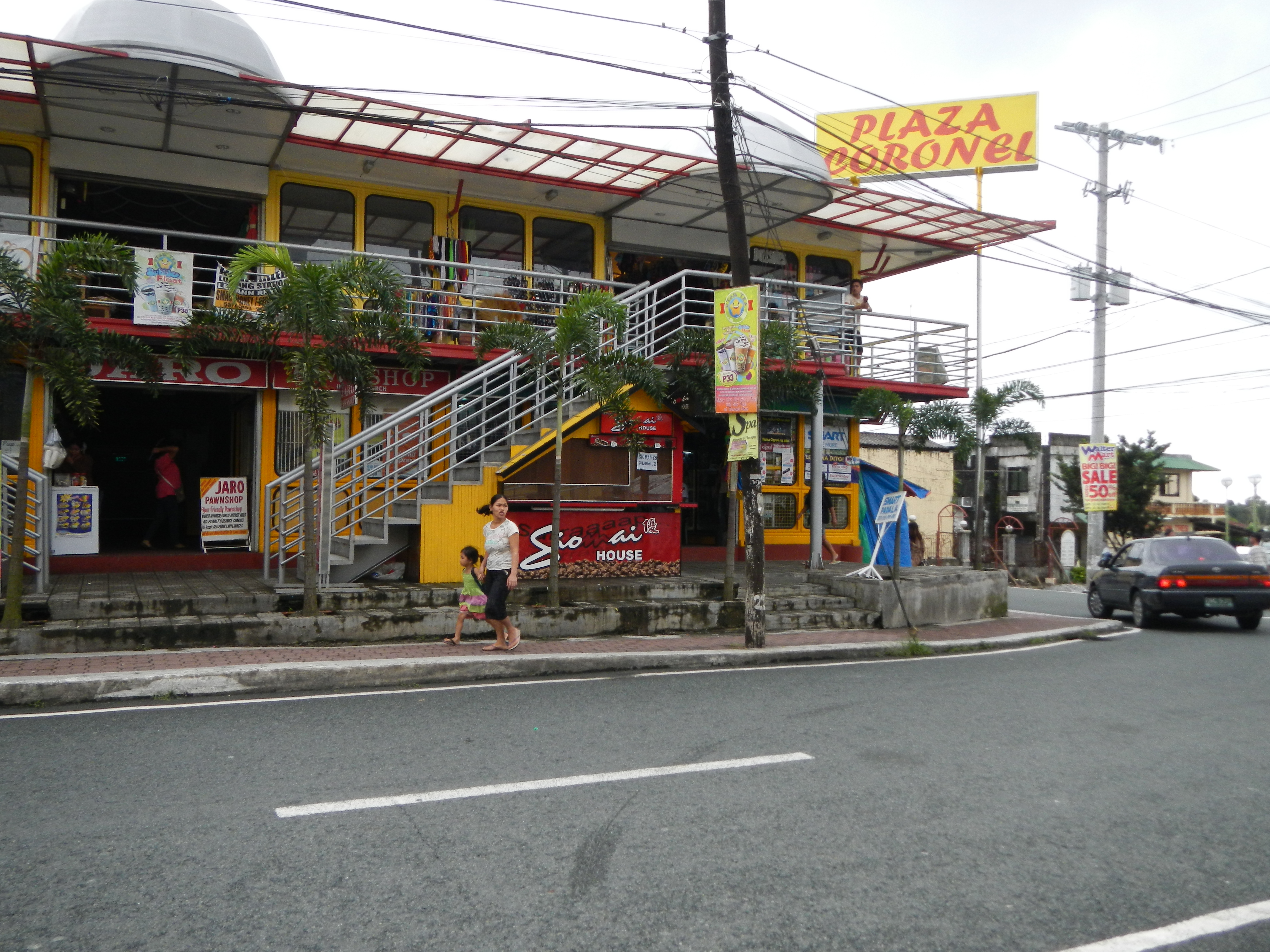 UploadWizard photos --- Saint Gregory the Great Parish Church of Indang (general description) of landmarks, heritage, culture, comprehensive, photography) of – Indang, Cavite [1] [2] Coordinates: 14°12'10"N 120°50'25"E [3] Geographical location: Cavite, Region 4, Philippines, Asia Geographical coordinates: 14° 11' 43" North, 120° 52' 37" East [4] - Barangay Poblacion Tres Mall, Covered Court, Plaza, among others in Centro, downtown, junction, crossing, Town Proper in the heart is the heritage Town hall and Plaza -- and the - Indang Plaza in front of Town Hall - are - the Bust, Monument of Severino de las Alas, member of Aguinaldo's revolutionary cabinet; List of Cabinets of the Philippines[5] May 7 - November 13, 1899 - Cavite State University main campus, approximately 70 hectares in land area was named as Don Severino delas Alas Campus, is in Indang, Cavite.[6], Indang Heroes and Martyrs, WWII Veterans Memorial, Marker, Indang, Cavite [7] and the Monuments, Markers of - Jose Mojica Y Diokno, Raymundo C. Jeciel Y Tamio, (Governors 1922–1925) who was with Aguinaldo during his retreat to Northern Luzon and former governor of Cavite, General Ambrosio R. Mojica, politico-military governor of the First Philippine Republic in Samar and Leyte, Hugo Ilagan (May 7 - November 13, 1899) First Philippine Republic[8] and Jose Elias Coronel Y Rosal, both delegates to the Revolutionary Congress in Tarlac, Tarlac.